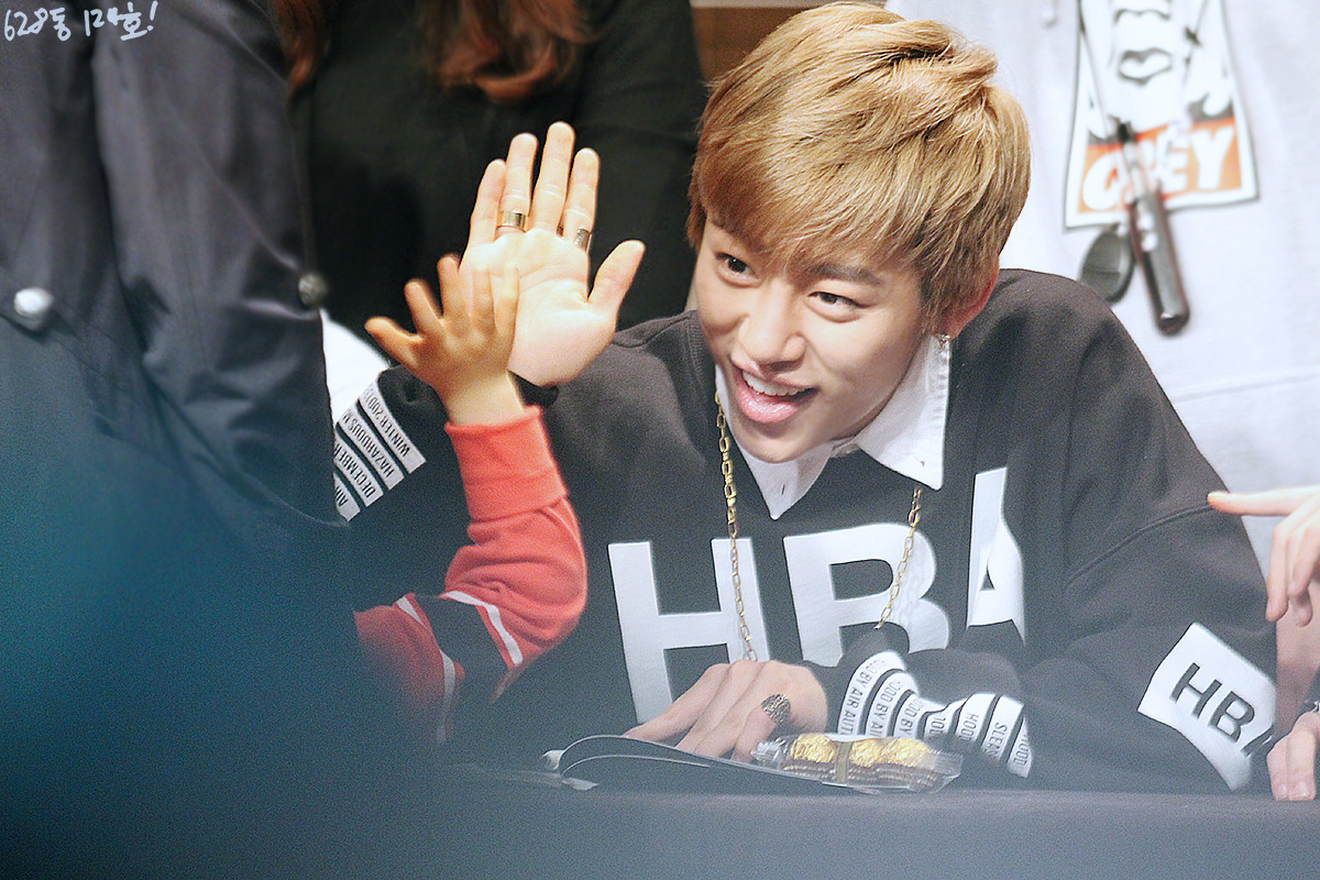 Jung Dae-hyun at a B.A.P fansign event in Yongin on March 23, 2014.